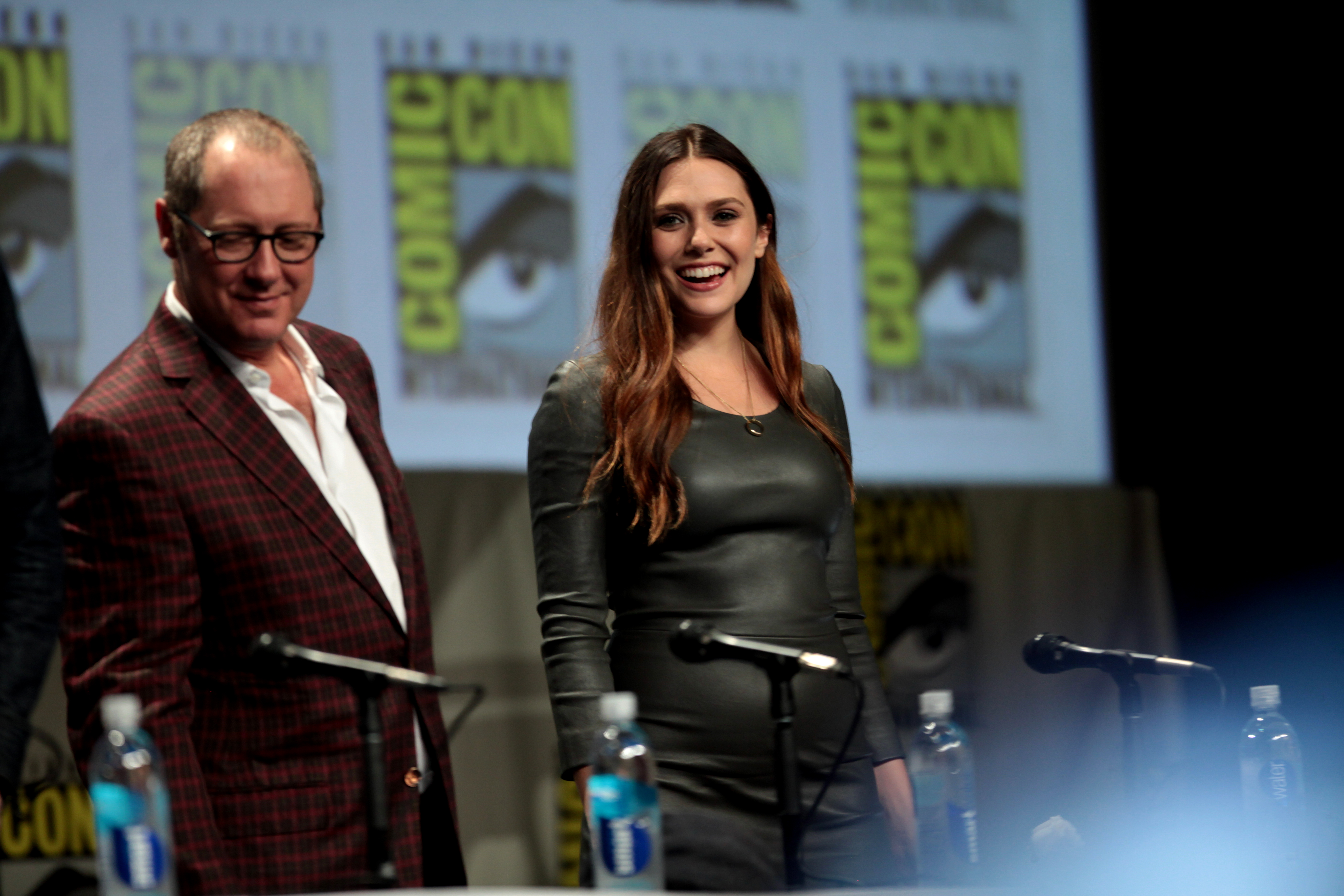 Elizabeth Olsen speaking at the 2014 San Diego Comic Con International, for "Avengers: Age of Ultron", at the San Diego Convention Center in San Diego, California.